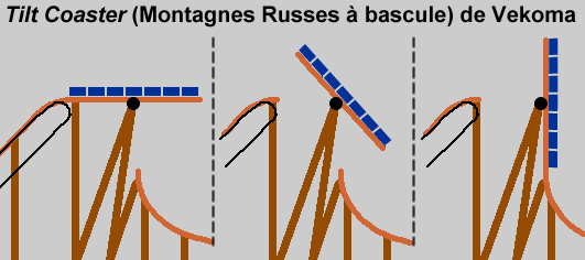 Diagram of the operation of the first drop of a Vekoma Tilt Coaster.